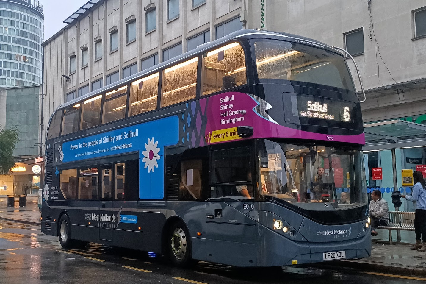 One of NX West Midlands' new Enviro400 EV electric buses pictured in Birmingham City Centre, on route 6 to Solihull.